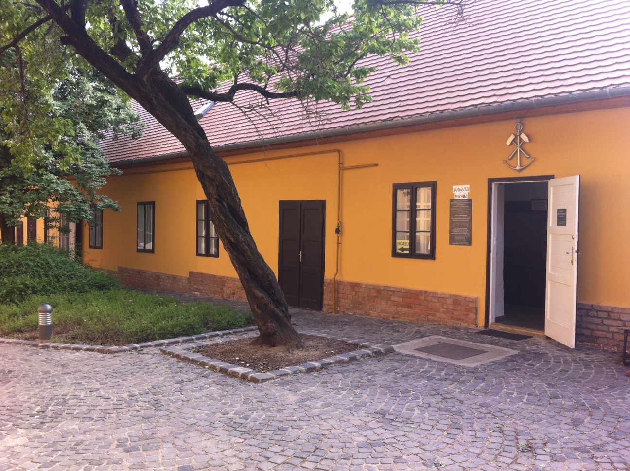 Mining Museum, Pécs, Hungary